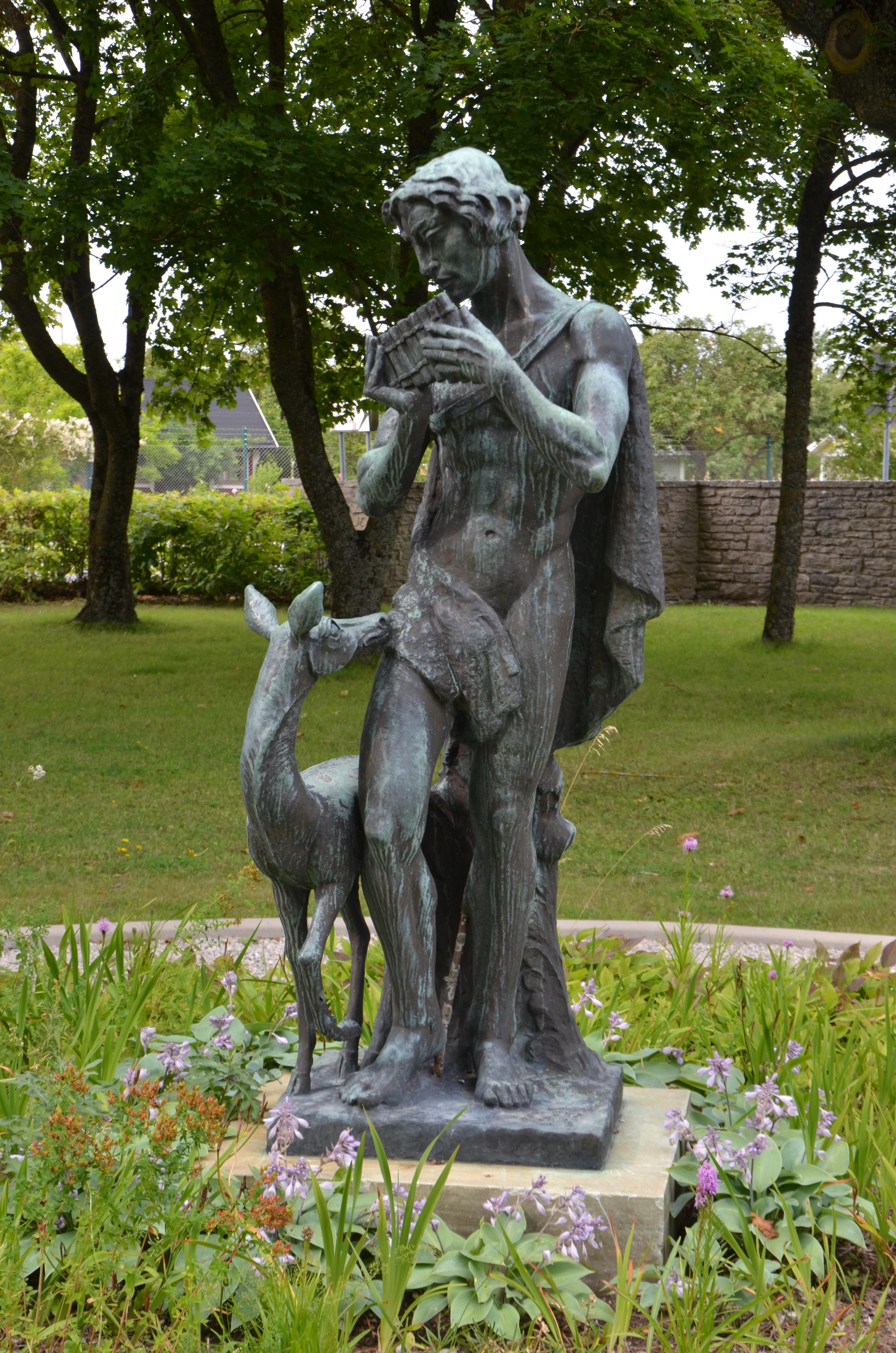 Alice Nordins Herde och hind, brons, 1937, Psykiatriska kliniken, Visby